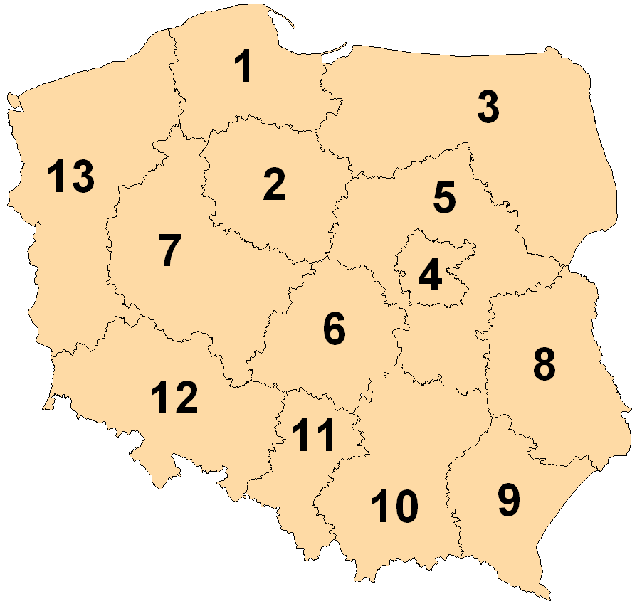 Electoral districts of Poland - European Parliament constituencies in Poland